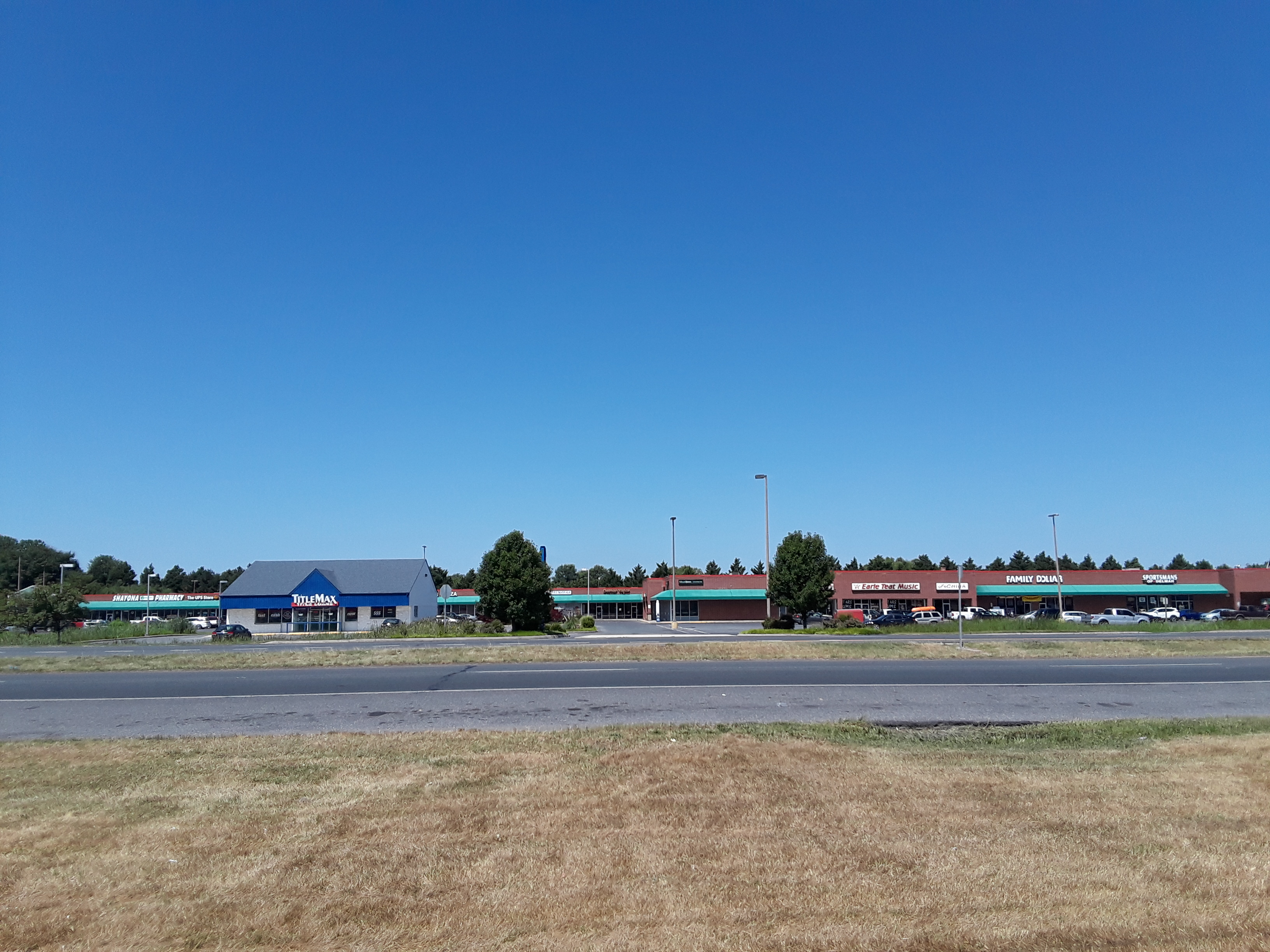 Shopping center along the southbound lanes of US 13 in Delmar, Delaware.